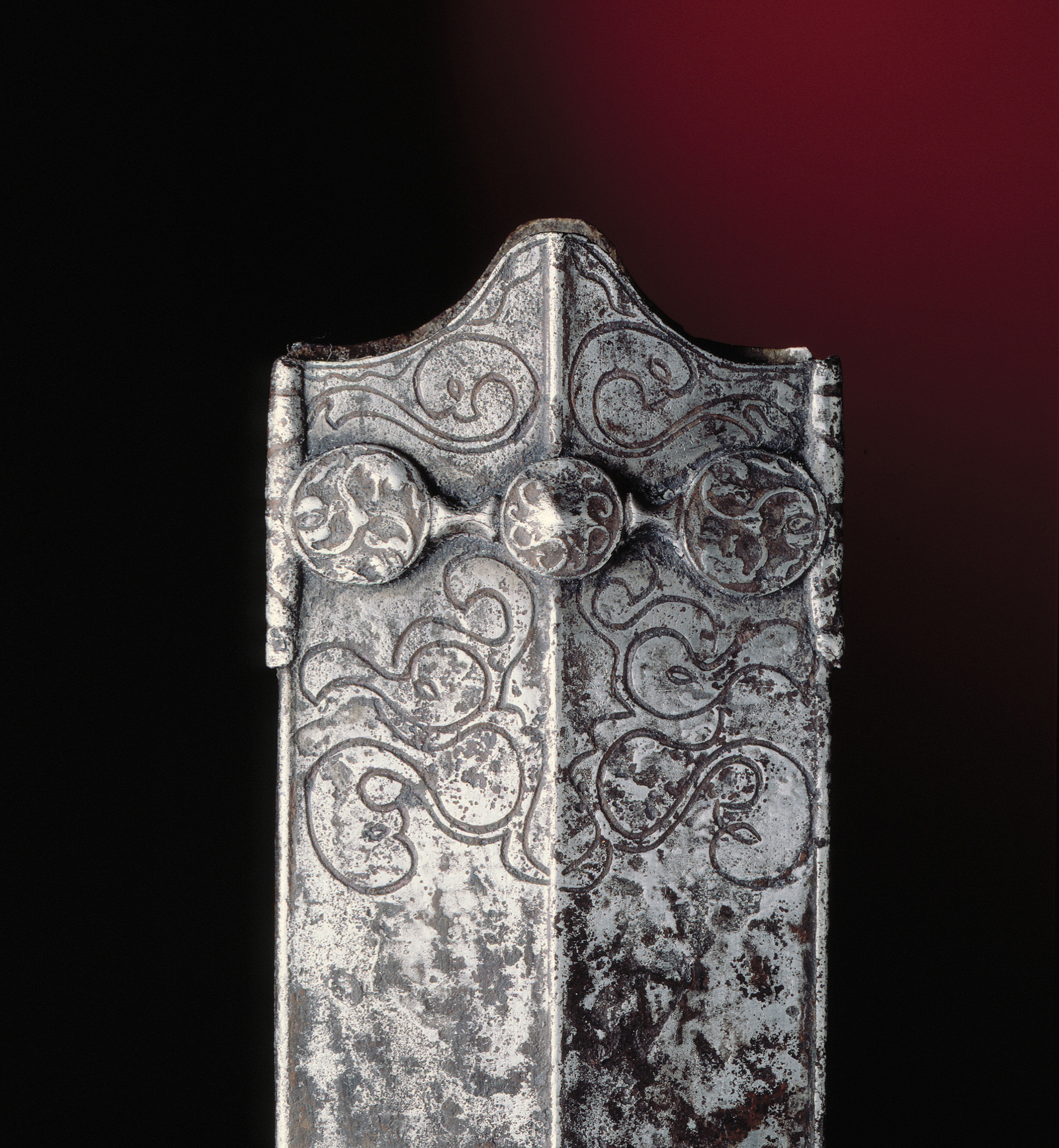 Sheath of a celtic iron sword. Middle La Tène (300 -100 B. C.), La Tène (Neuchâtel).N° inv. MAR-LT-540. Picture by Y. André / Laténium.